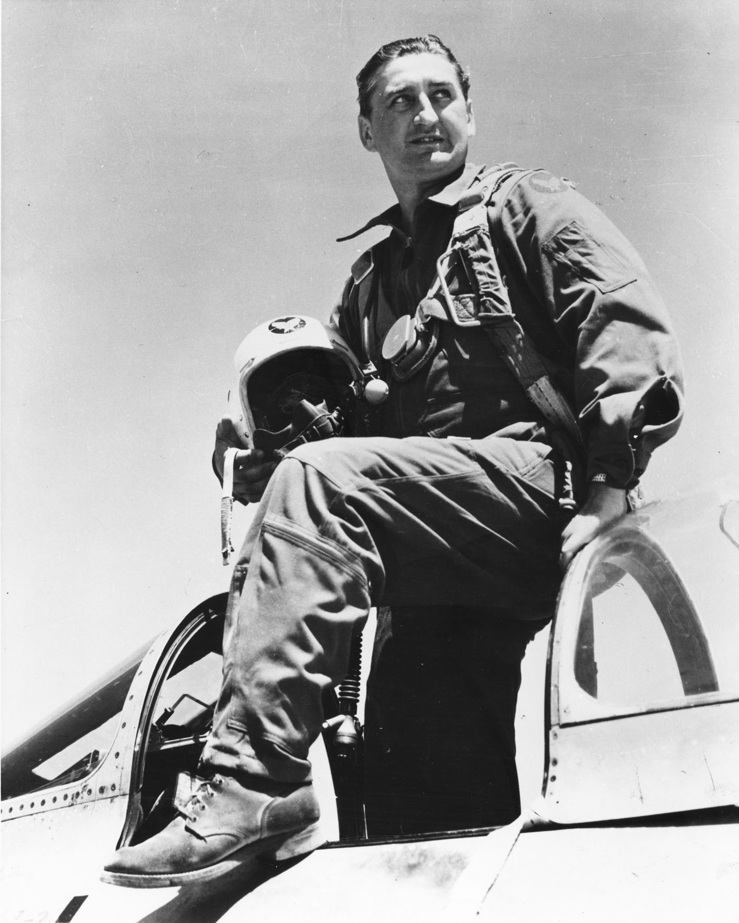 Col. Francis S. "Gabby" Gabreski, stepping out of his F-86.